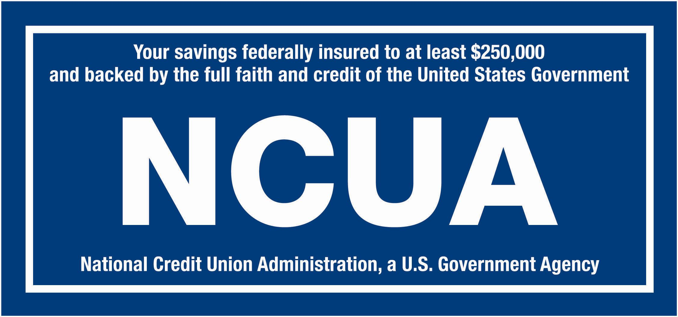 Logo of the NCUA used to inform credit union members that their savings are insured by the NCUA. The sign is usually displayed prominently in credit unions.